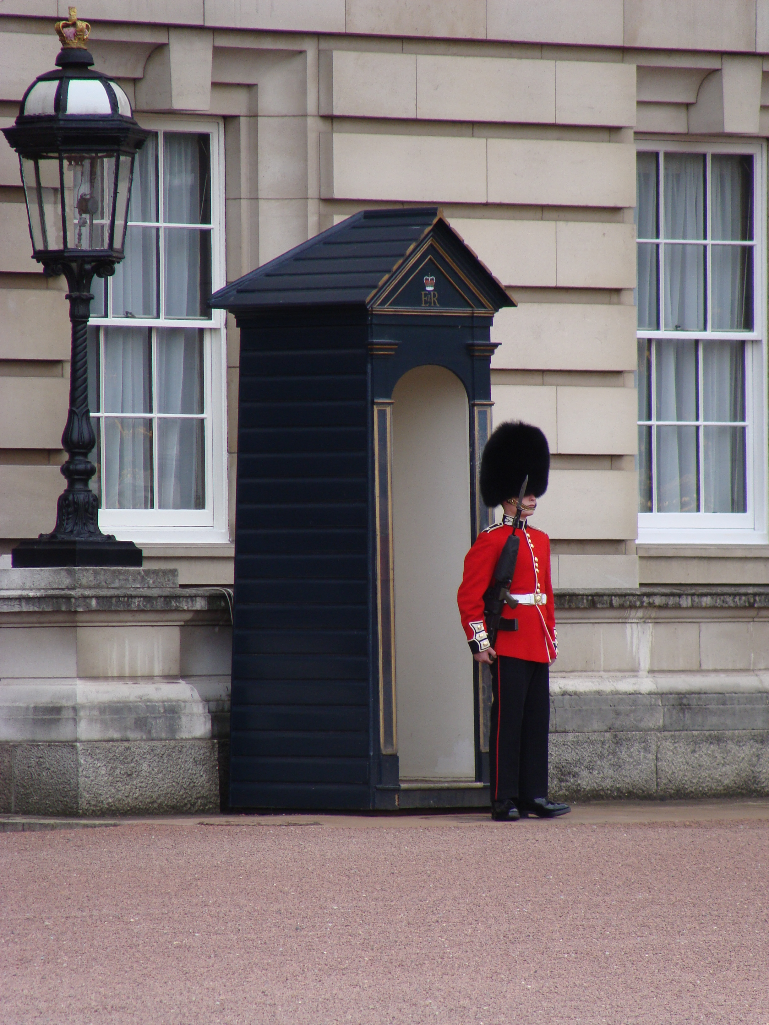 Guard of Buckingham Palace in London